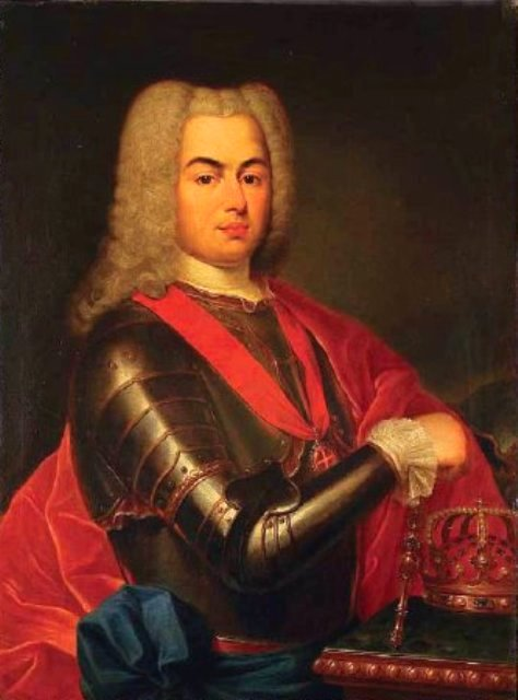 Oil painting; 18th century